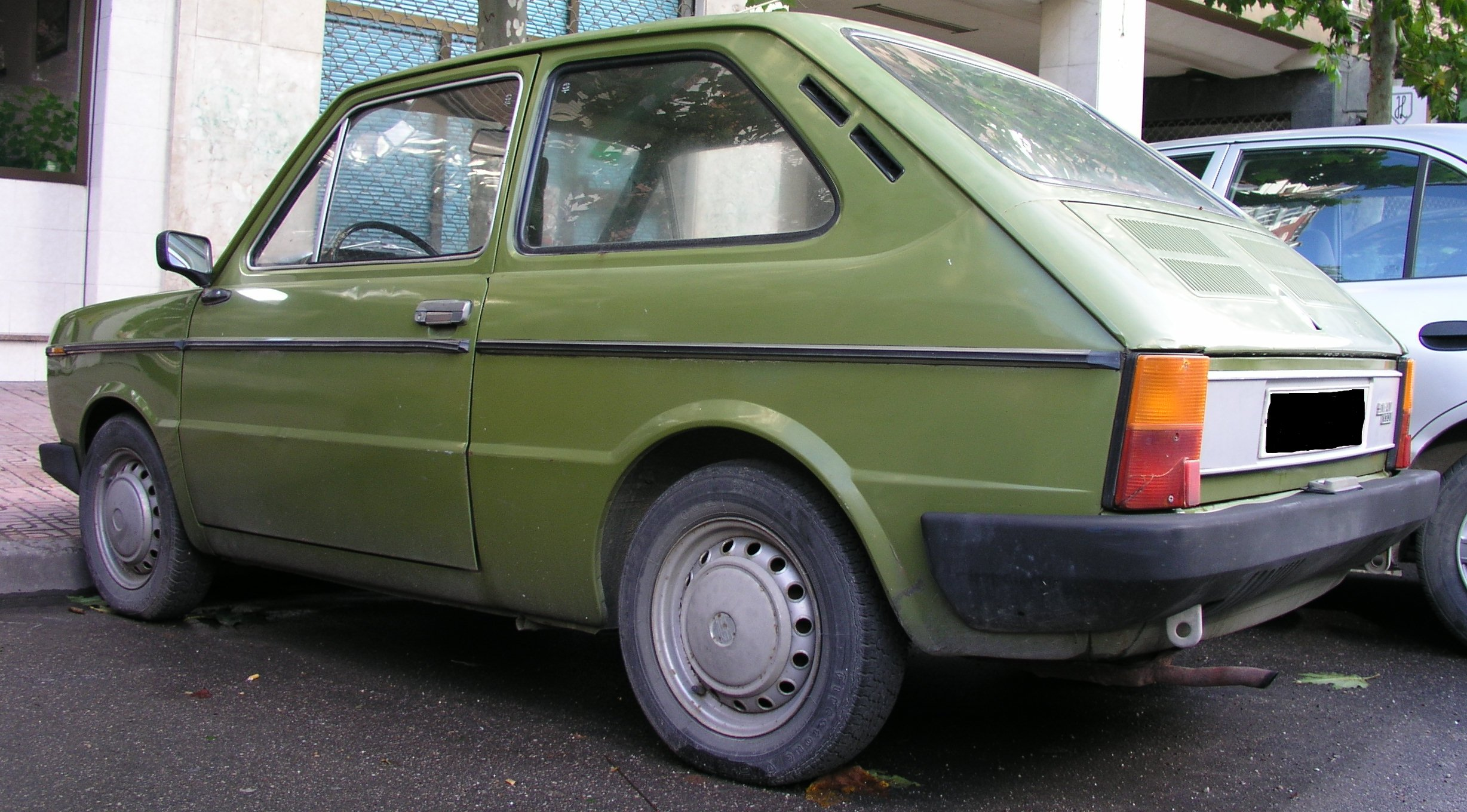 SEAT 133. Spain, 2006.